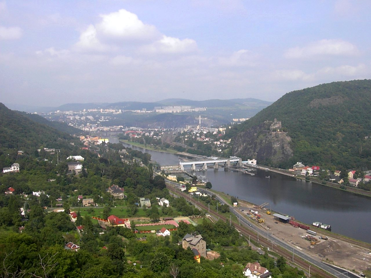 Masaryk Water Lock on the Elbe River and Střekov castle in Ústí nad Labem, Czech Republic